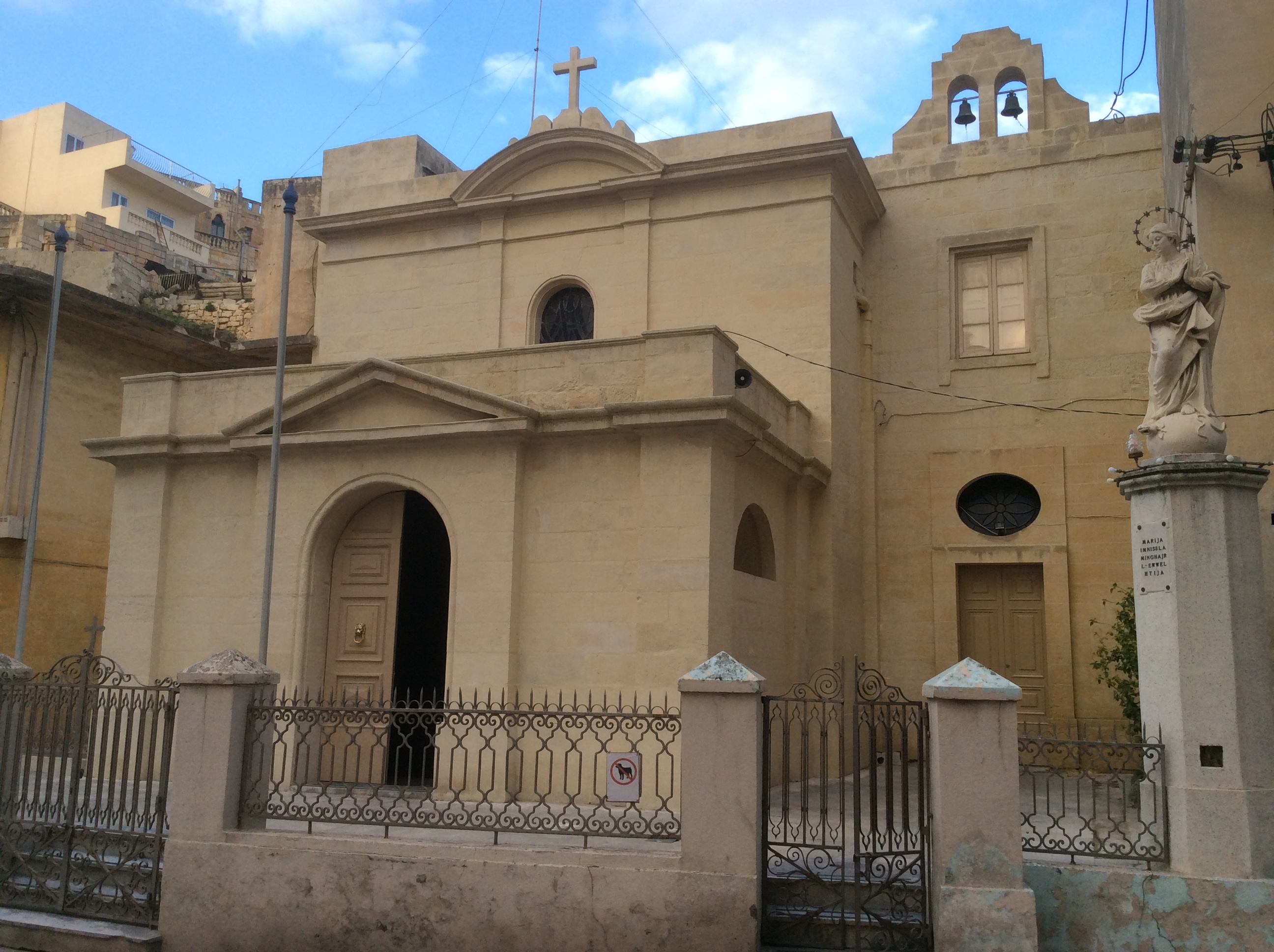 Church of the Immaculate Conception This media is about Maltese cultural property with inventory number 00017.